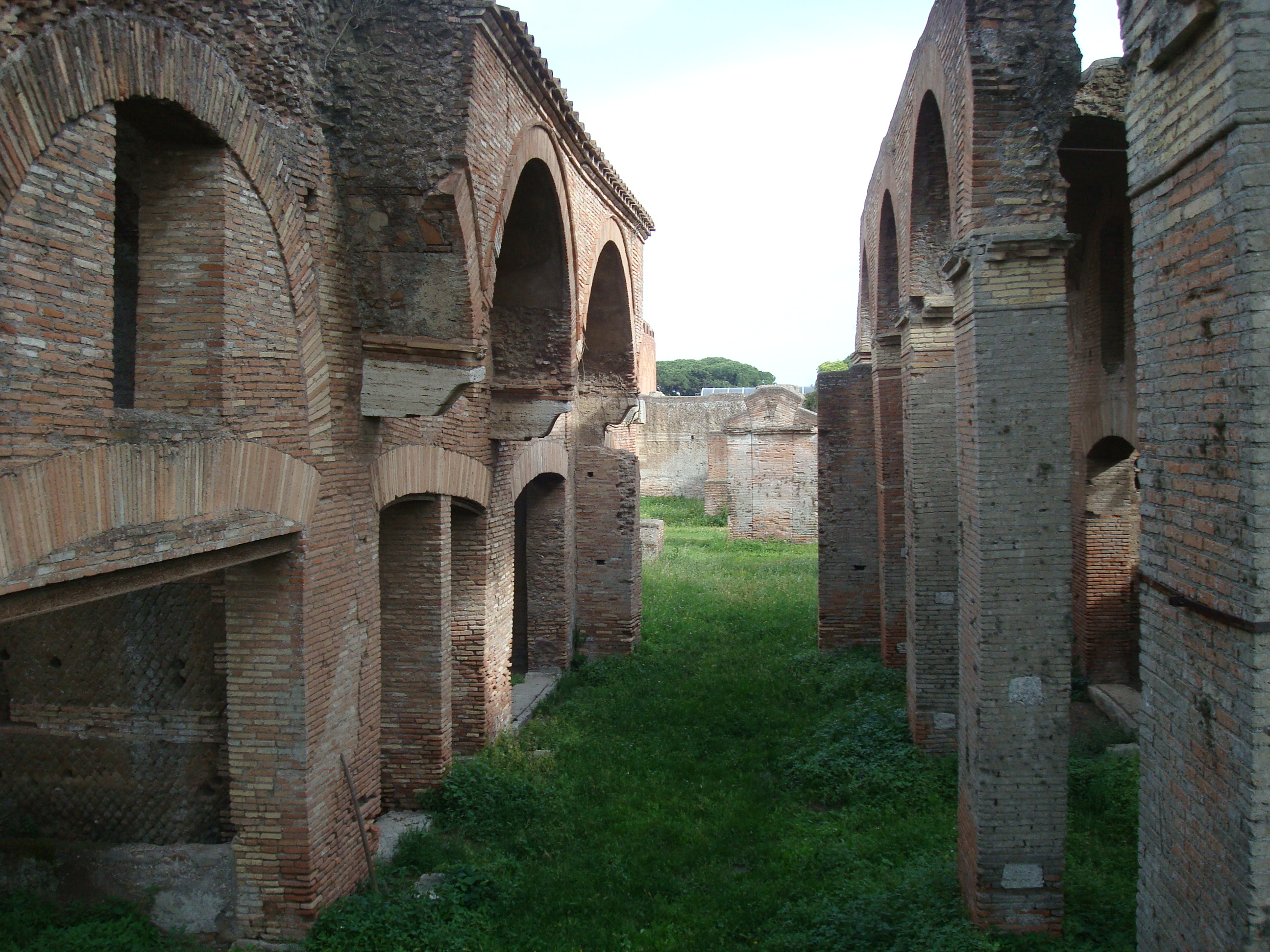 Photo taken by me in May 2008 Ostia, Caseggiato del Balcone a mensole (I,VI,2) left; Caseggiato dei Misuratori del Grano (I,VII,1-2) (right)